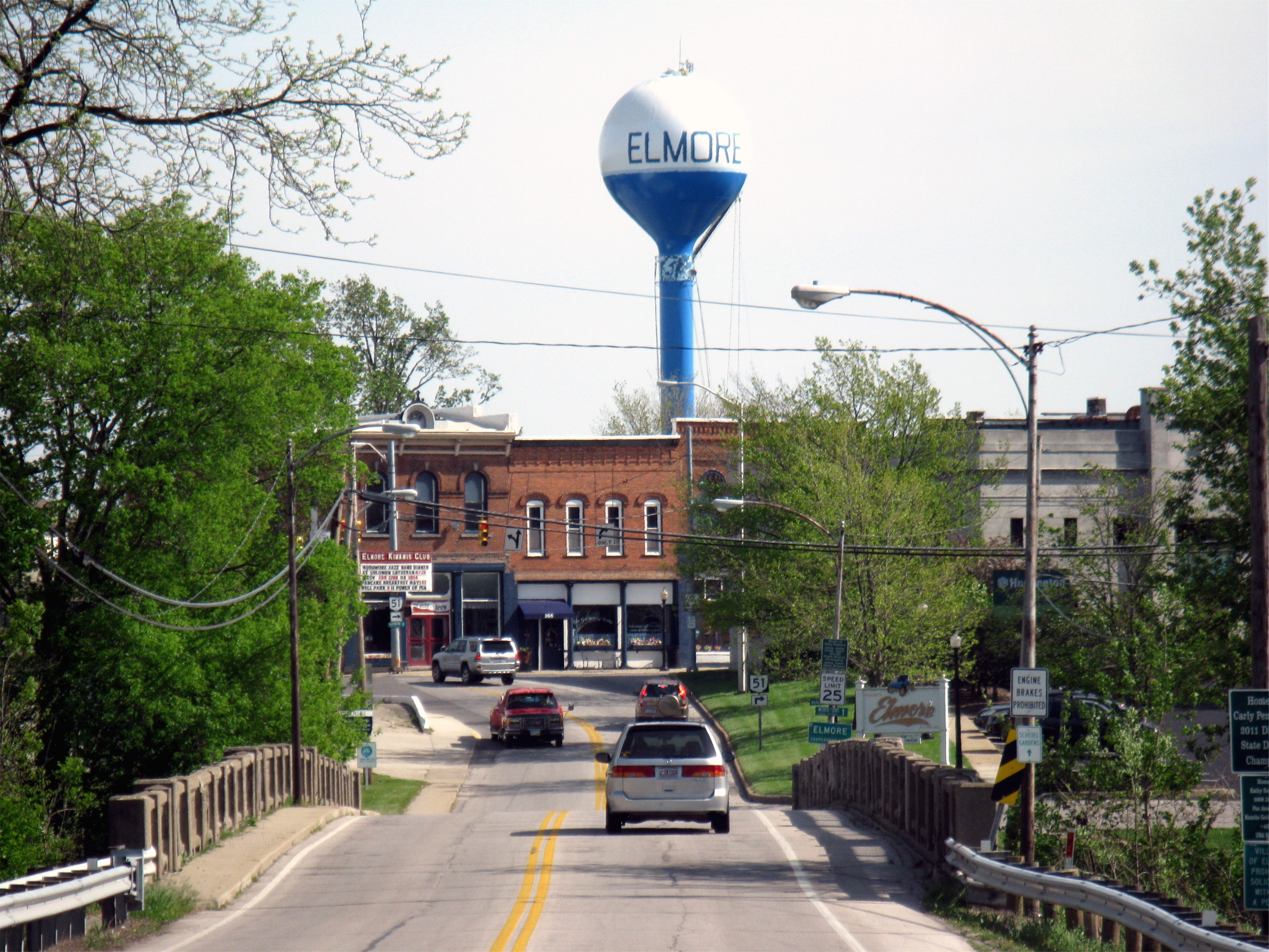 Entering Elmore, Ohio